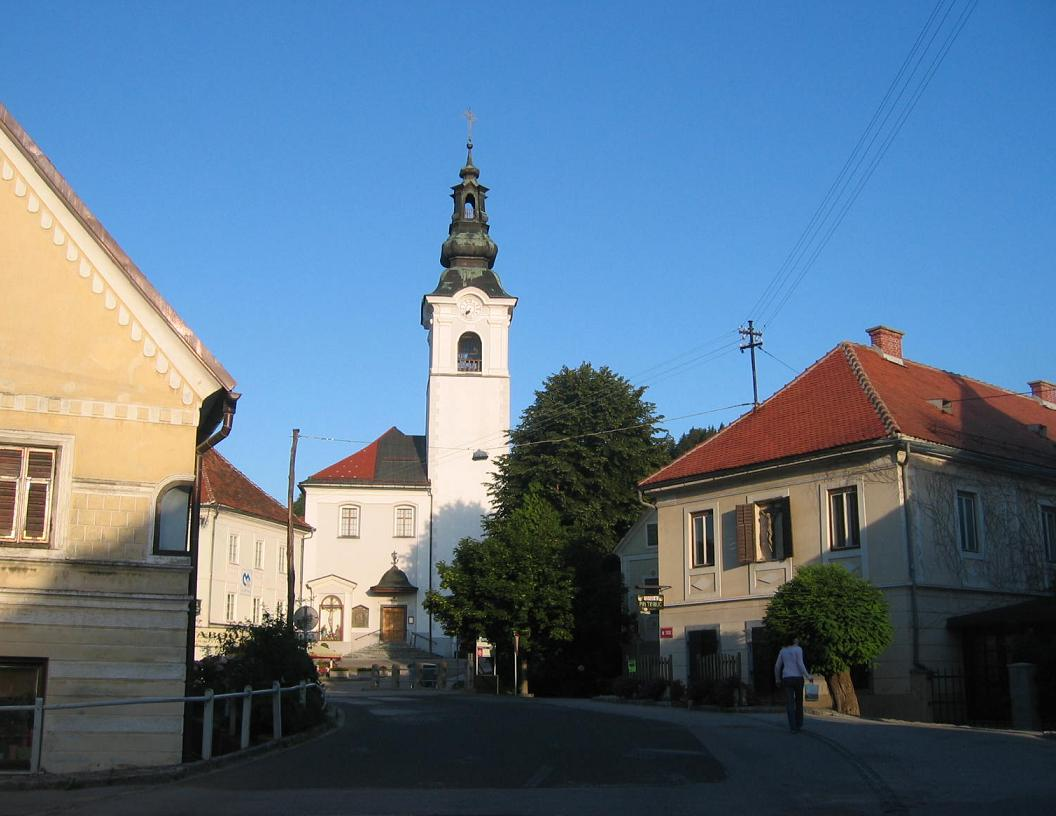 Mozirje, town center photo:Ziga 21:27, 12 August 2006 (UTC)